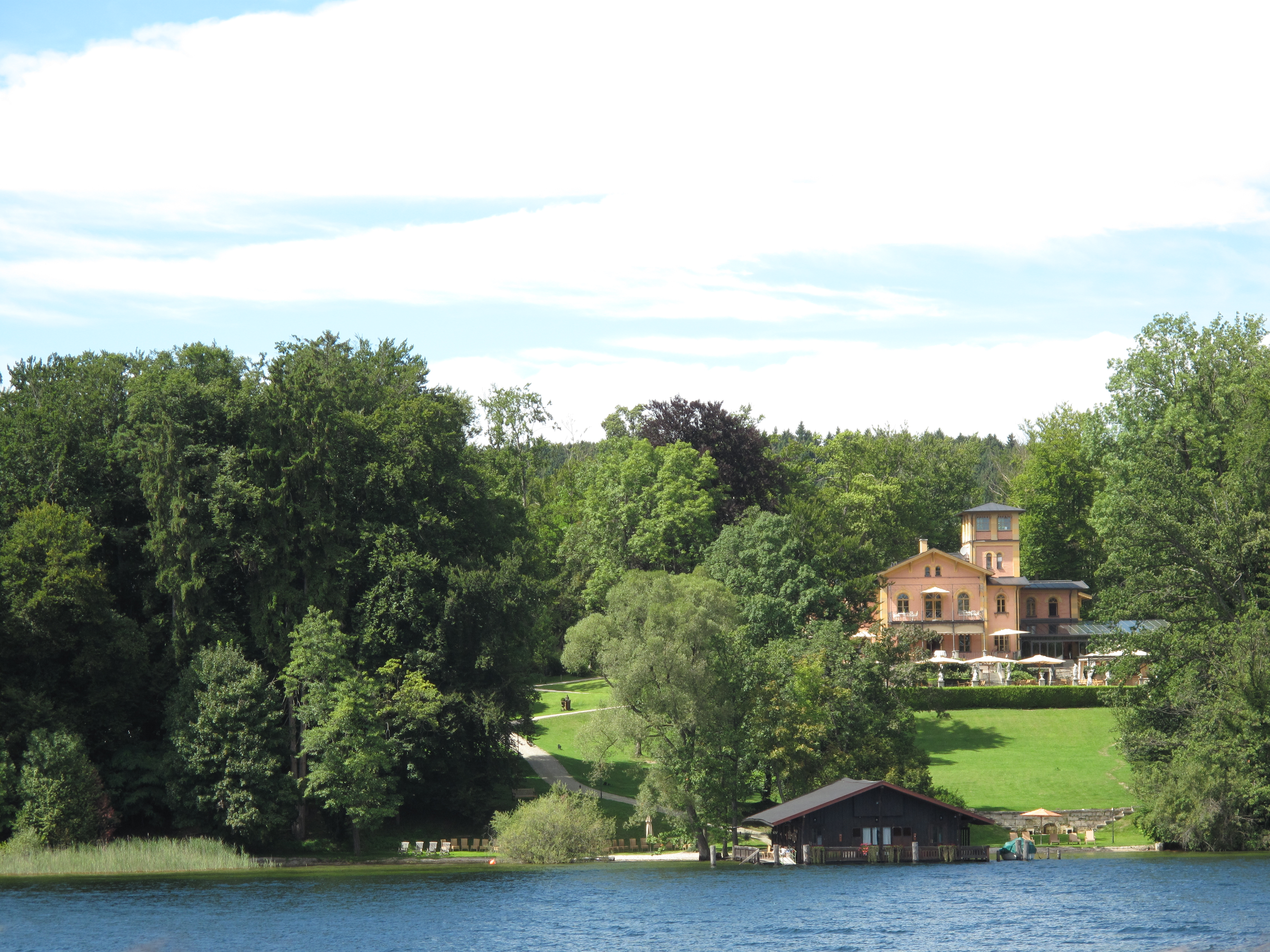 Villa in Niederpöcking at the west shore of Lake Starnberg, Bavaria, Germany.